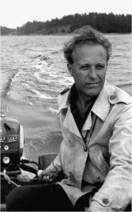 Photograph of the Finnish neurosurgeon Gunnar af Björkesten (1912–1974) at his summer residence Tostholm, Southern Finland.